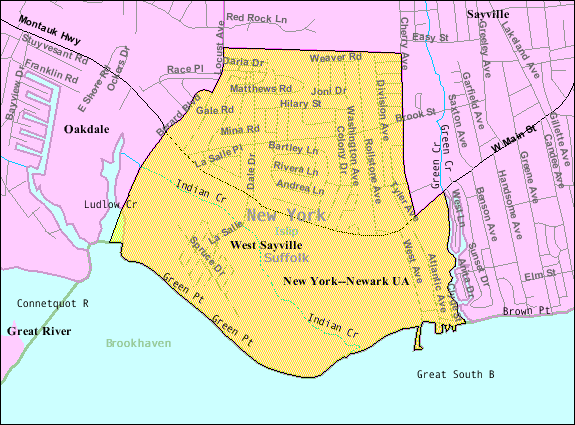 U.S. Census 2000 reference map for West Sayville